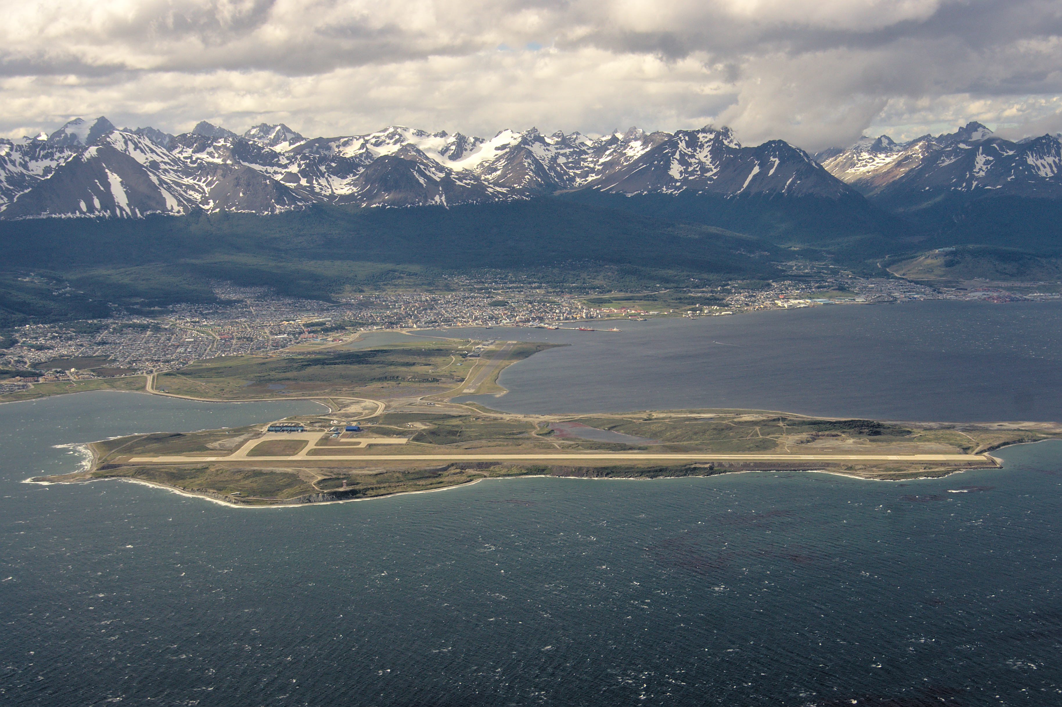 Aerial image of the Ushuaia Airport, 2013. In the background, the runway of the Aeroclub can be seen.